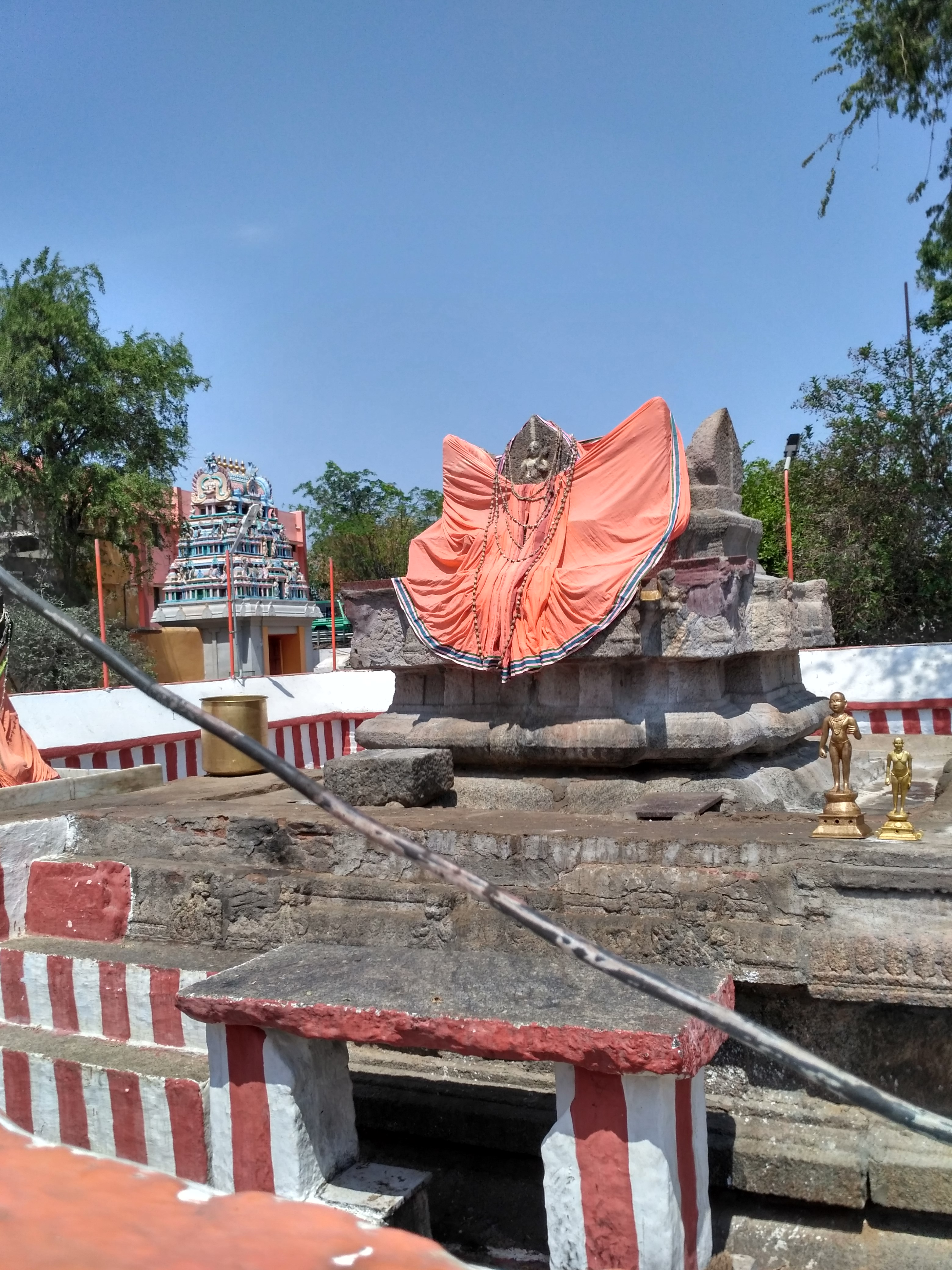 sri ragothamar's jeeva samathi